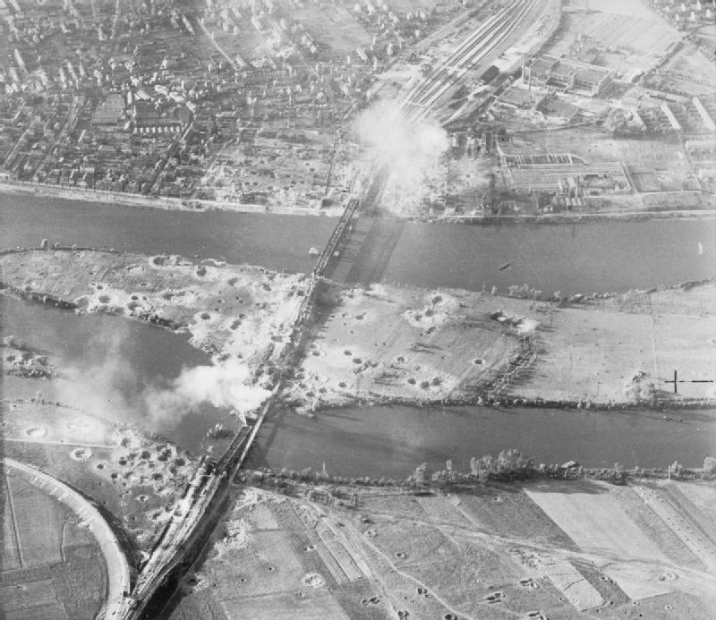 Bombing Raids Over France, August 1944 Photograph taken from a reconnaissance aircraft of 2nd Tactical Air Force, after an allied attack, showing a burning vehicle on the improvised bridge across the Seine at Oissel, south of Rouen, holding up a stream of traffic from the west.